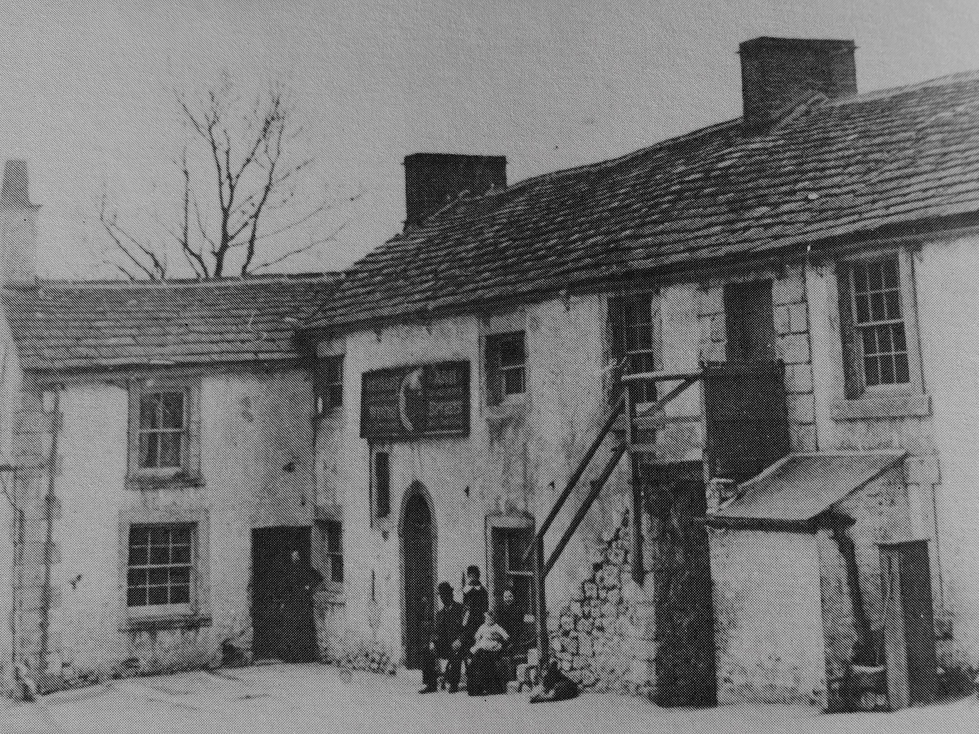 The Bulls Head at Fairfield in the 1800s